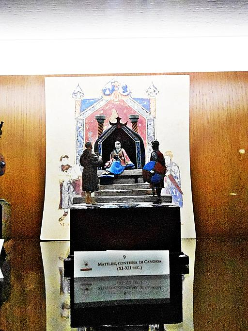 Matilde duchess of canossa